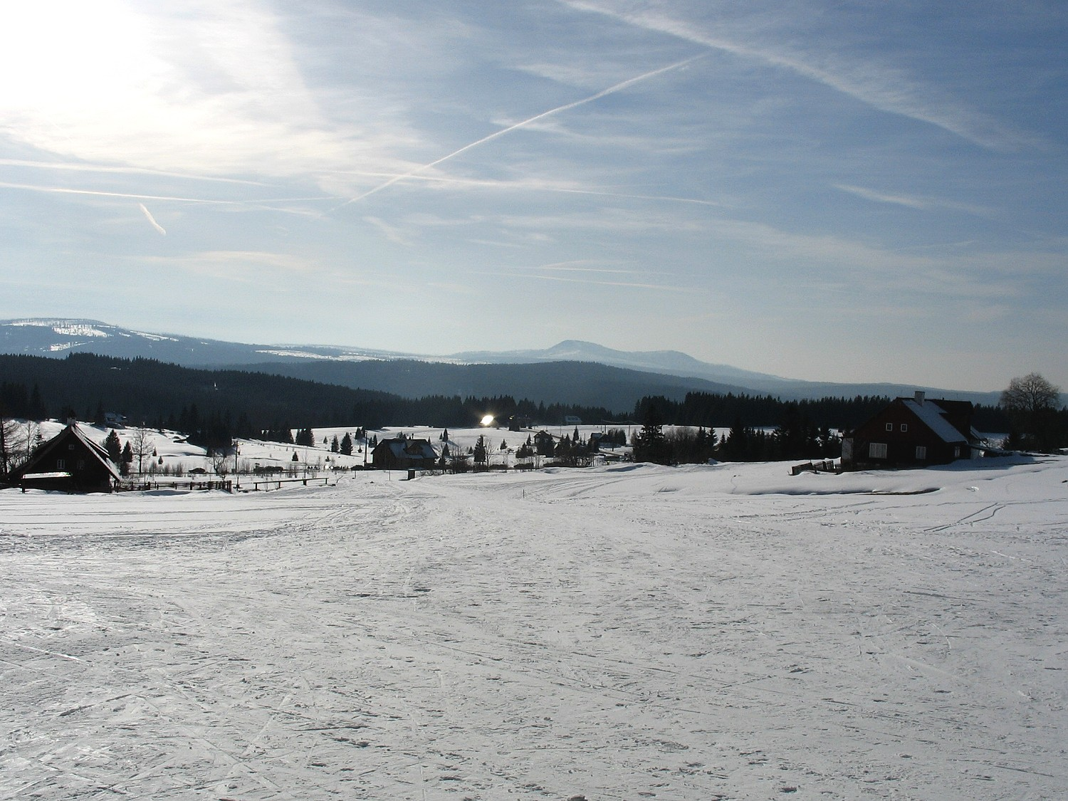 The village Filipova Huť in the Šumava Mts., Czech republic